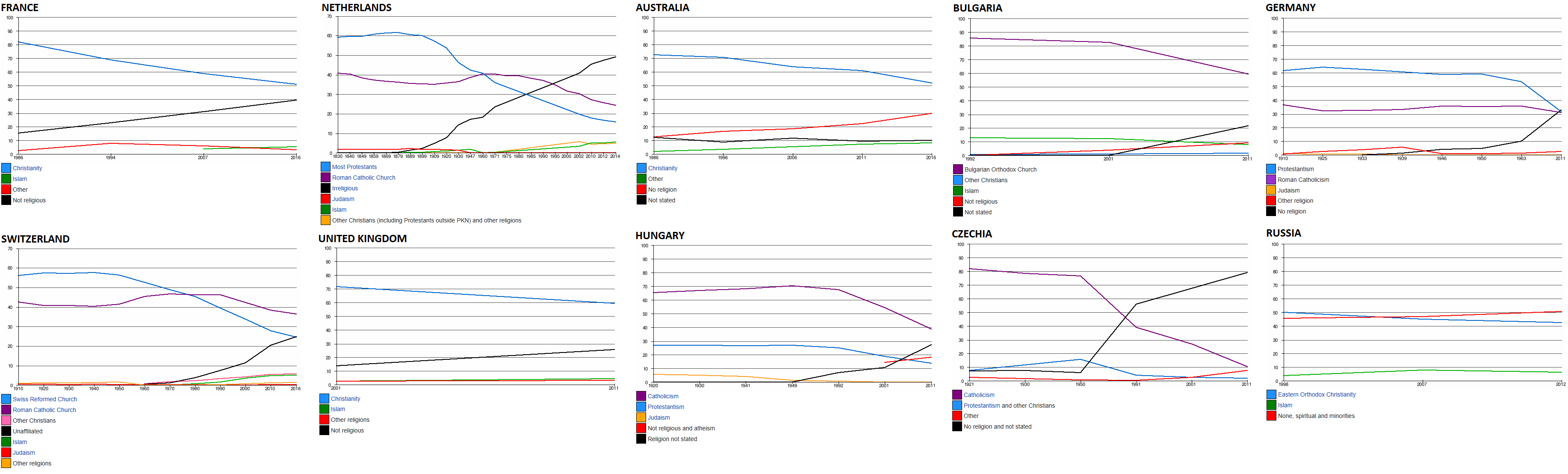 Diagrams chronologically displaying data about religion from various censuses and surveys in various European and Anglophone countries, demonstrating a general decline of Christianity in all these countries. Data are collected in versions of the Wikipedia articles: Religion in France, in the Netherlands, in Switzerland, in the United Kingdom, in Australia, in Bulgaria, in Hungary, in Czechia, in Germany, in Russia.